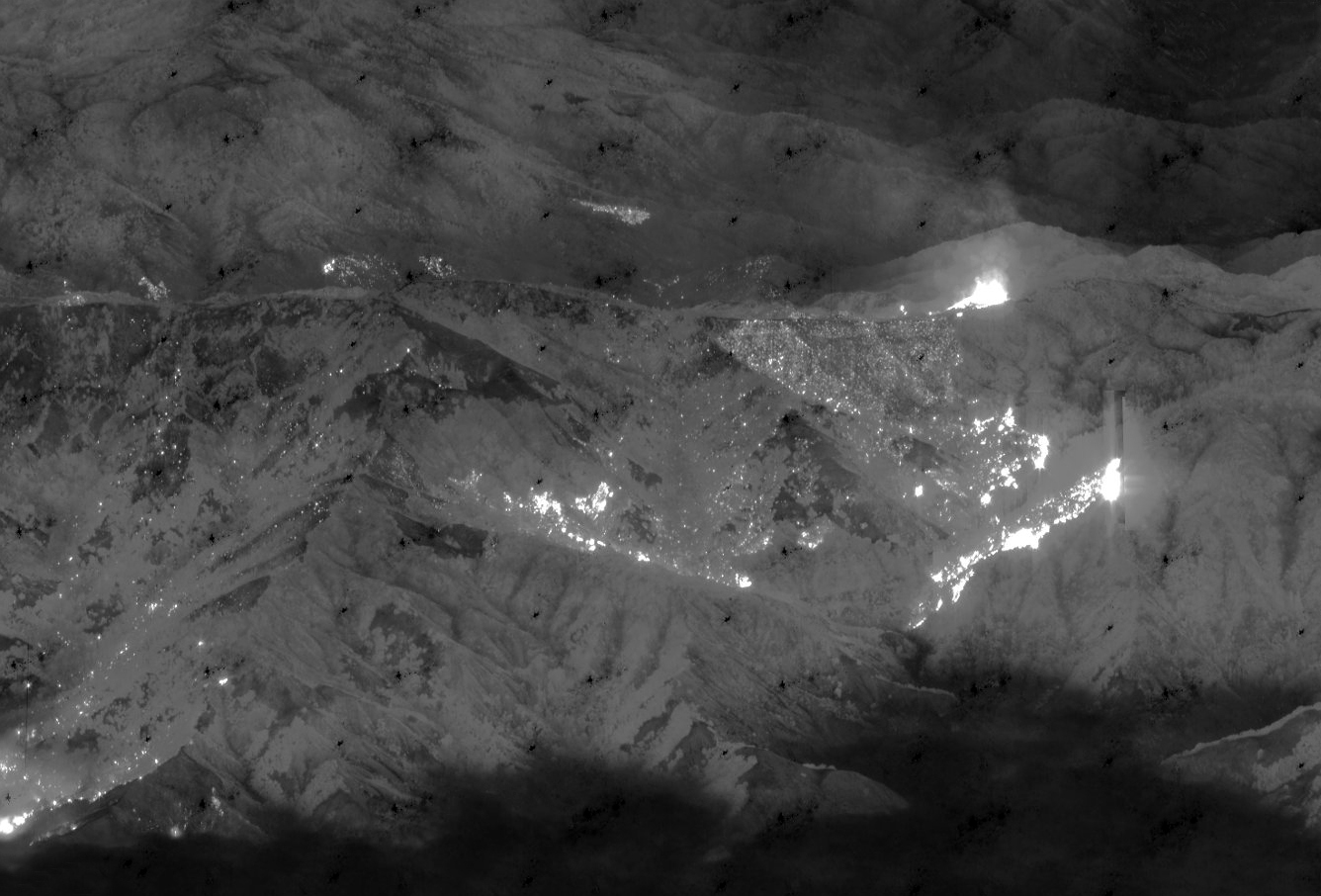 This photograph taken by the RQ-4 Global Hawk unmanned aerial vehicle (UAV) shows an aerial view of wildfires in Northern California in July 2008. 080805-N-0000X-001 SAN DIEGO (July 5, 2008) This photograph taken by the RQ-4 Global Hawk unmanned aerial vehicle (UAV) shows an aerial view of wildfires in Northern California in July 2008. Global Hawk stayed aloft for nearly 24 hours sending detailed images to help manage firefighting efforts. The long-range UAV can reach any location in the world within 24-hours and is being tested by the Navy for maritime use. — Released (Text by U.S. Navy)